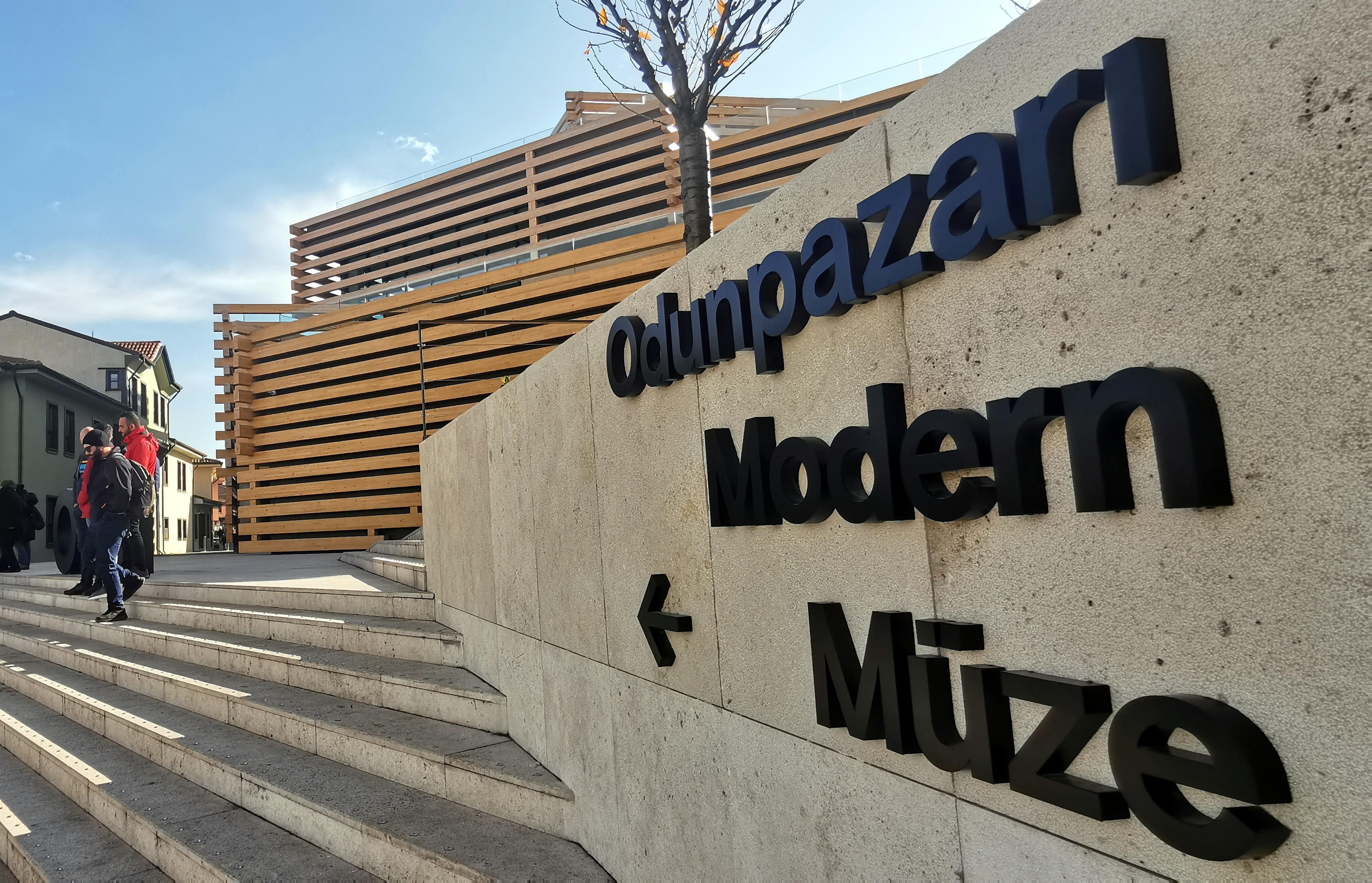 Historical district